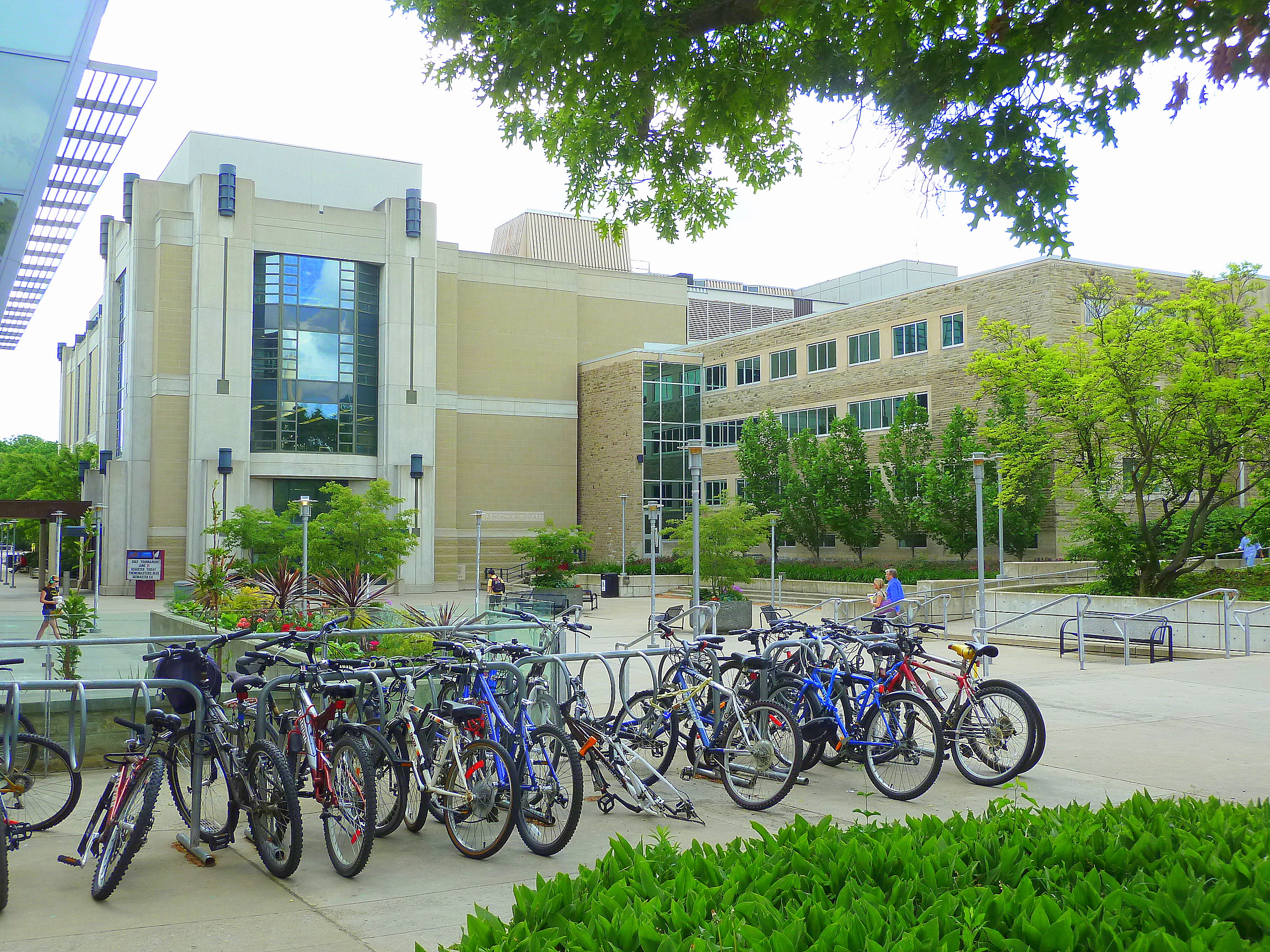 Exterior view of Mills Memorial Library and the plaza at the front of the building.